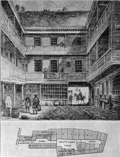 The White Hart, in Southwark, London. The ground-plan shows the arrangement of a carriers' inn with the stabling below; the guest rooms were on the upper floors.